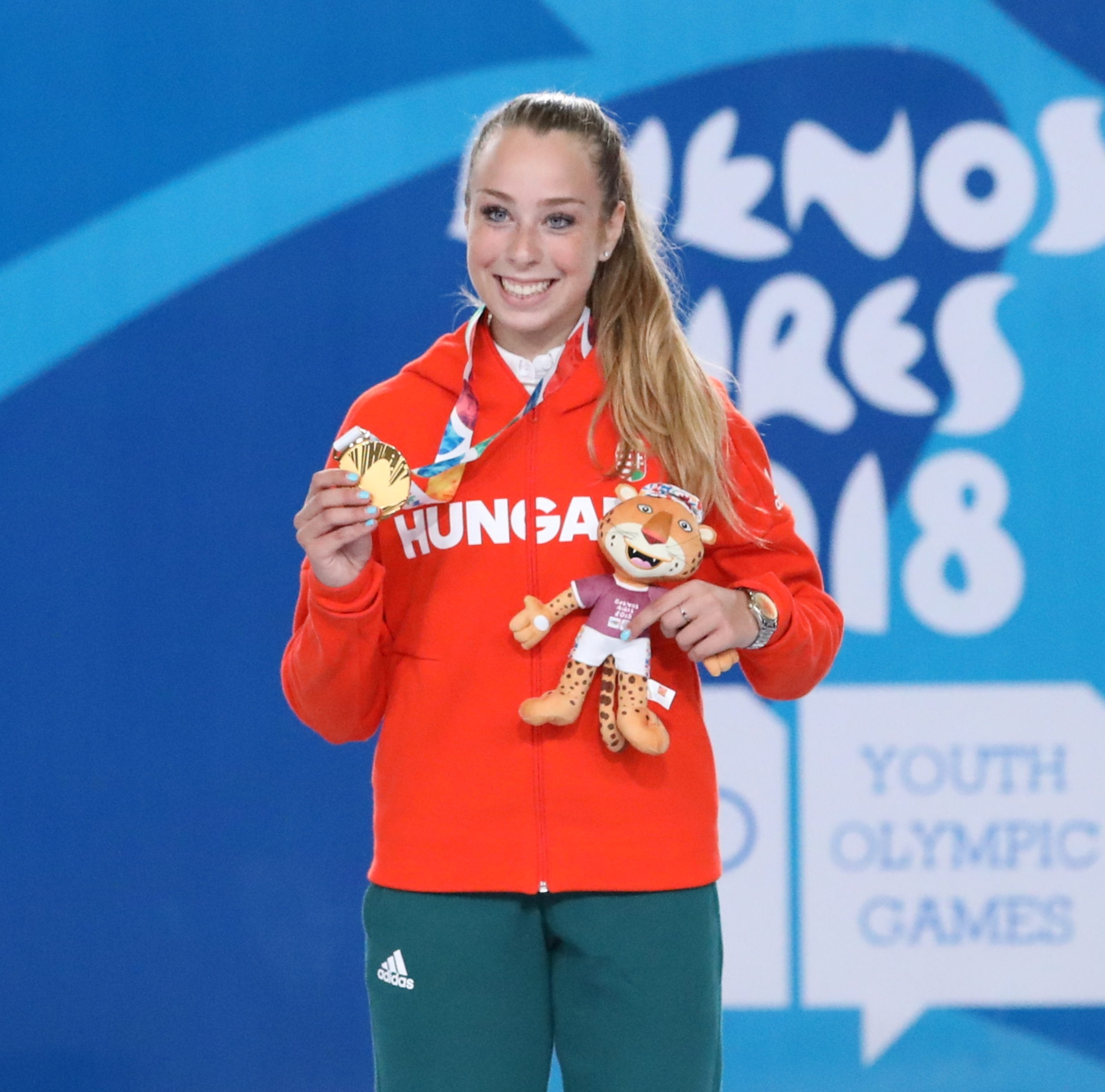 Girls' sabre, Victory ceremony: Liza Pusztai (Gold medal), Natalia Botello (Silver medal), Lee Ju-eun (Bronze medal))